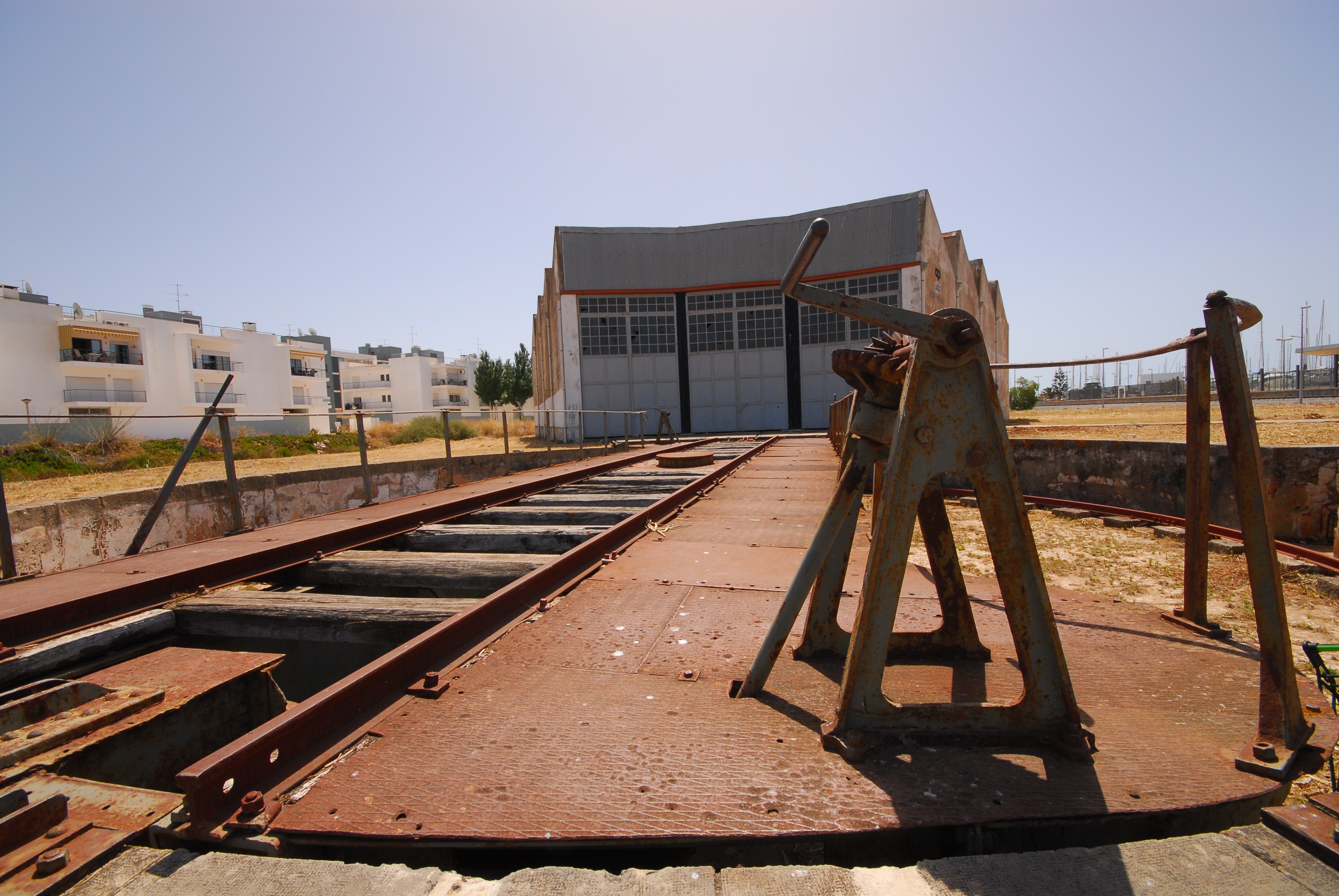 Old Railway Station, Lagos, Portugal.